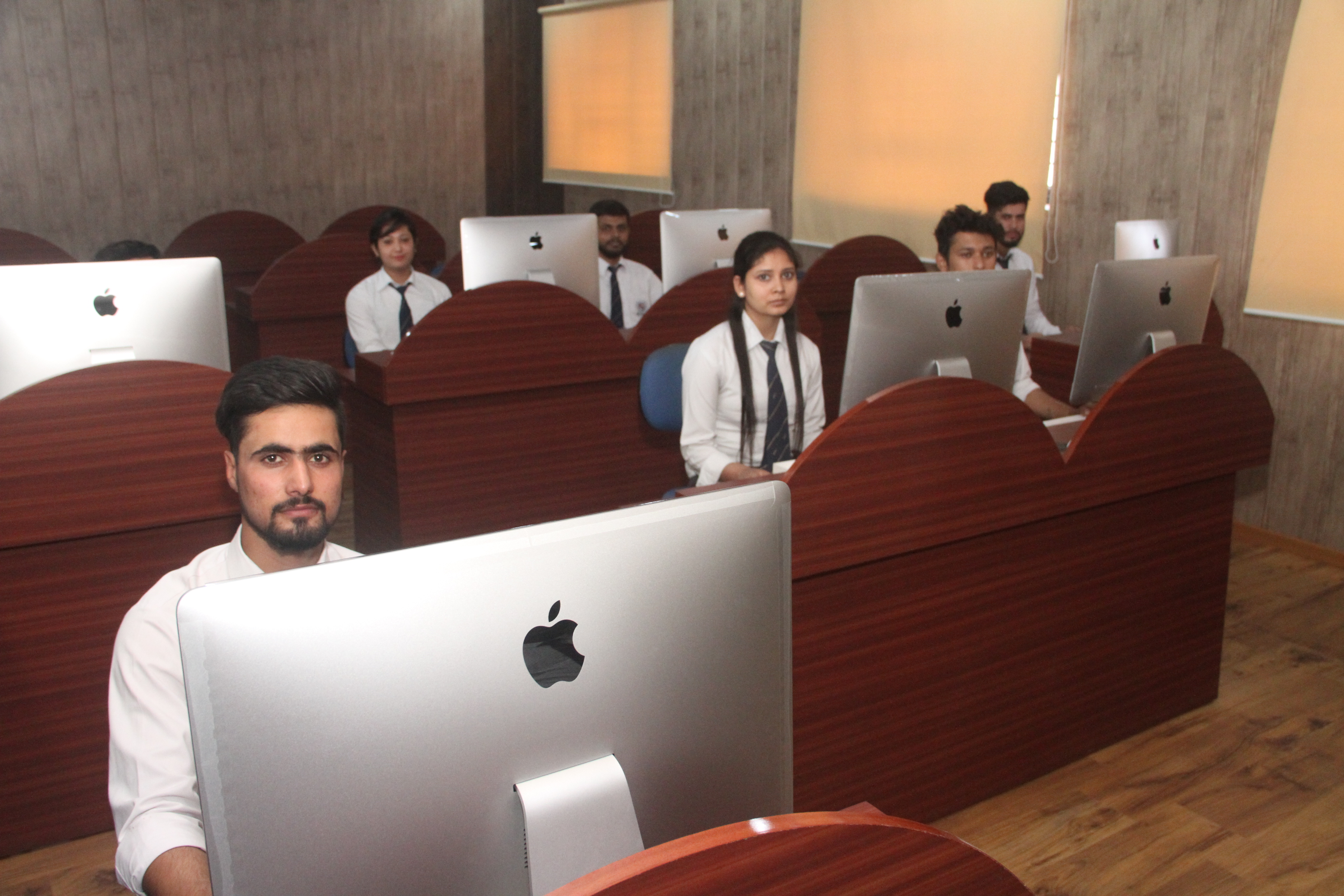 Apple lab oratory is built on the world's most advanced operating system the Macintosh is easy to use as it is powerful. It comes with applications the help students create amazing projects.